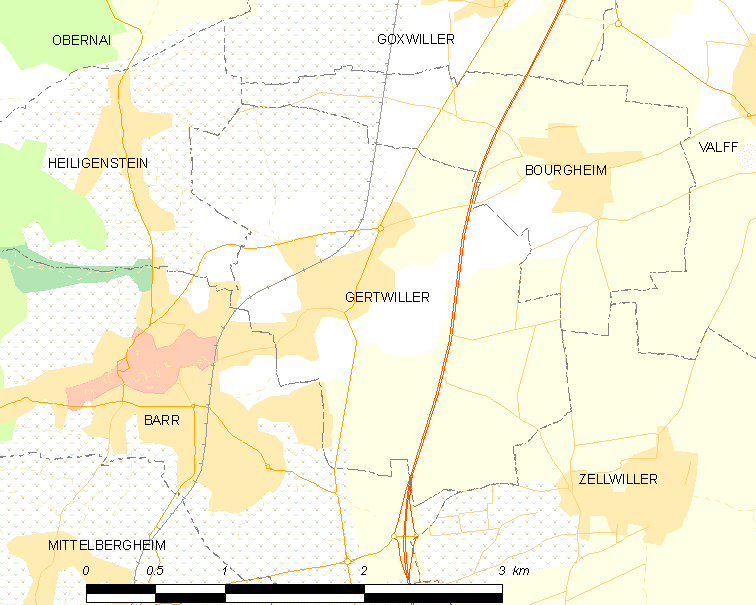 Map of French municipality